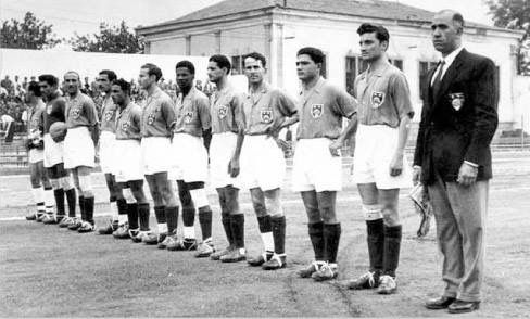 Iraqi Football National team 1951 - From right to left: Dhia Habib, Percy Lynsdale, Karim Allawi, Nassir Chico, Shaker Ismail, Salih Faraj, Saeed Easho, Hama Peshka, Jamil Abbas, Toma Abdul-Ahad, Adil Kamil and Wadud Khalil.